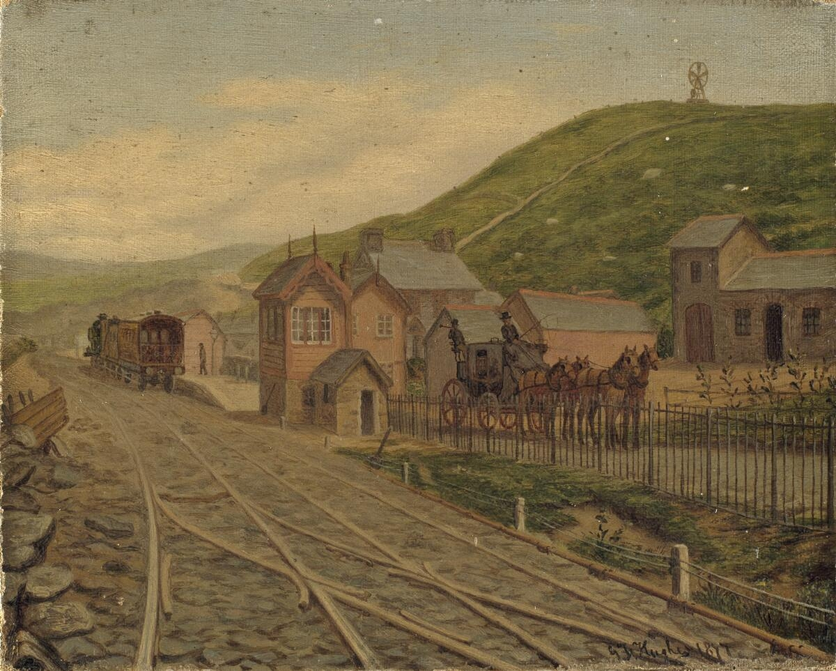 A painting from the Framed Works of Art collection at the National Library of wales.